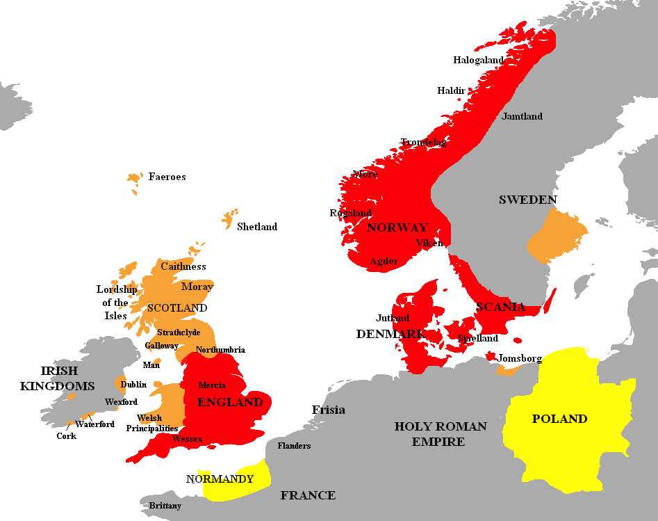 Derivative of File:Canute.PNG